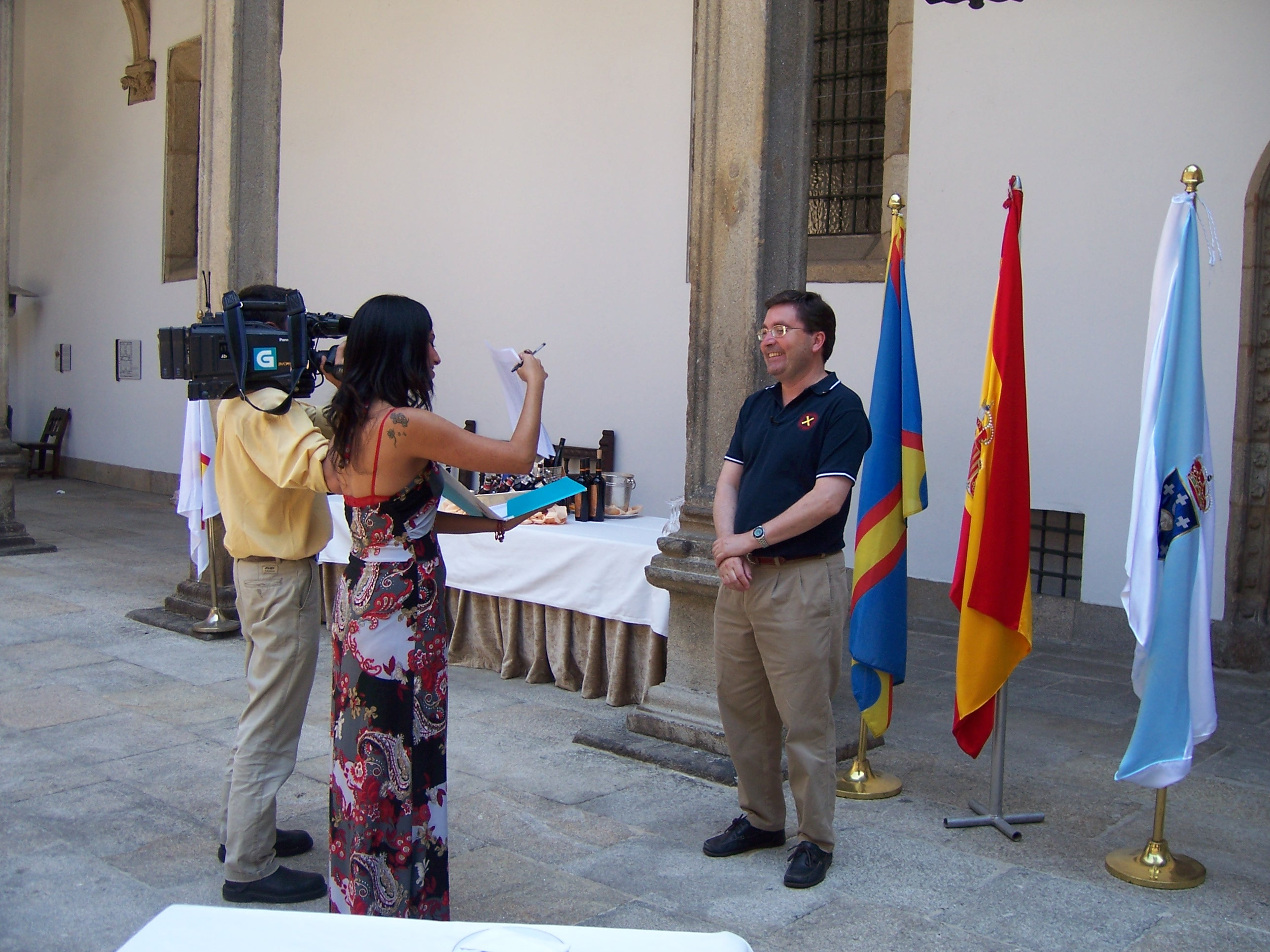 Jose C. Alegria being interviewed as president of the Spanish Society of Vexillology during the 25th National Congress at Orense, Spain (2010)